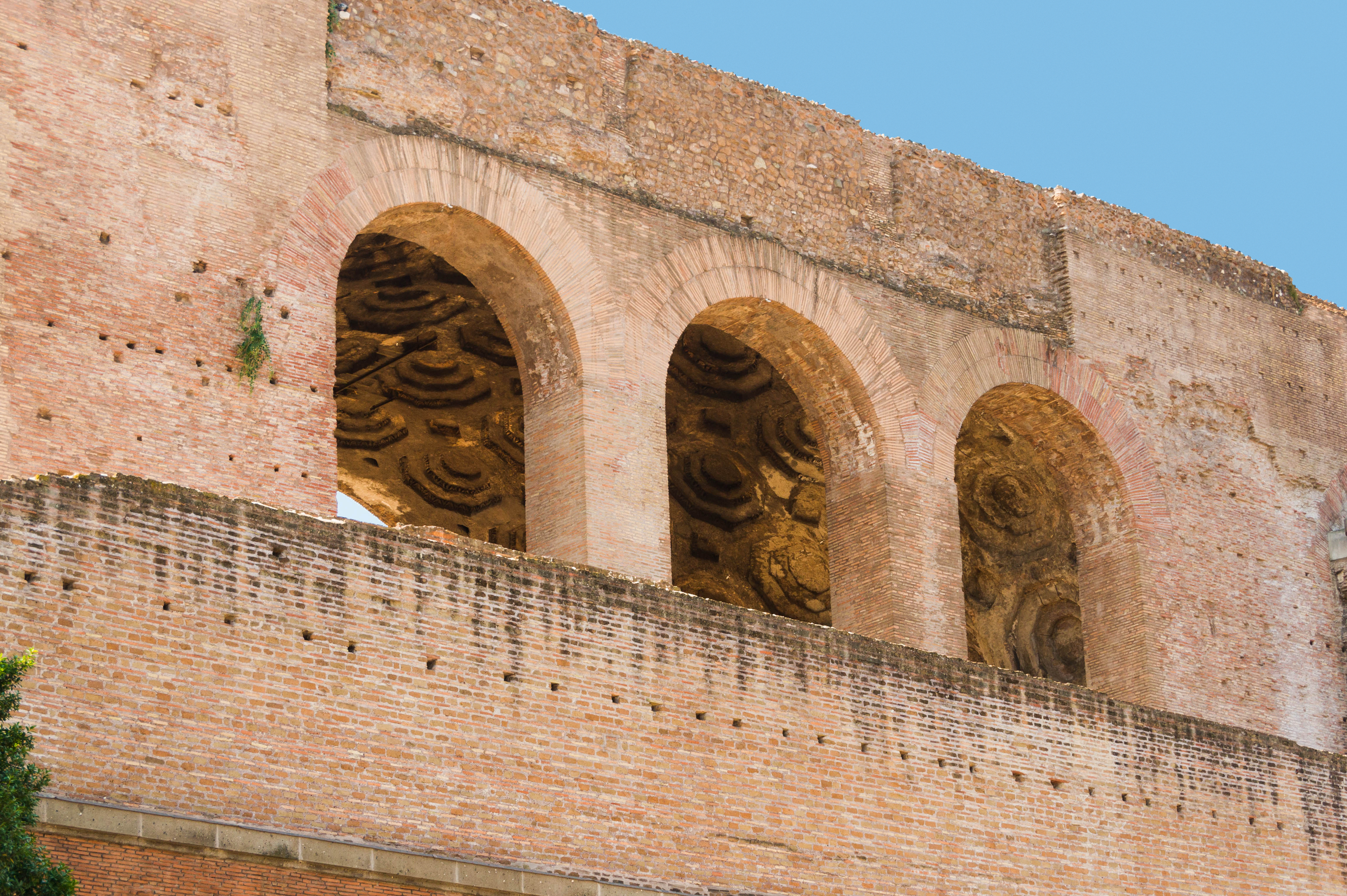 The three arches of the Basilica of Maxentius and Constantine, as seen from the Via dei Fori Imperiali, Rome, Italy.